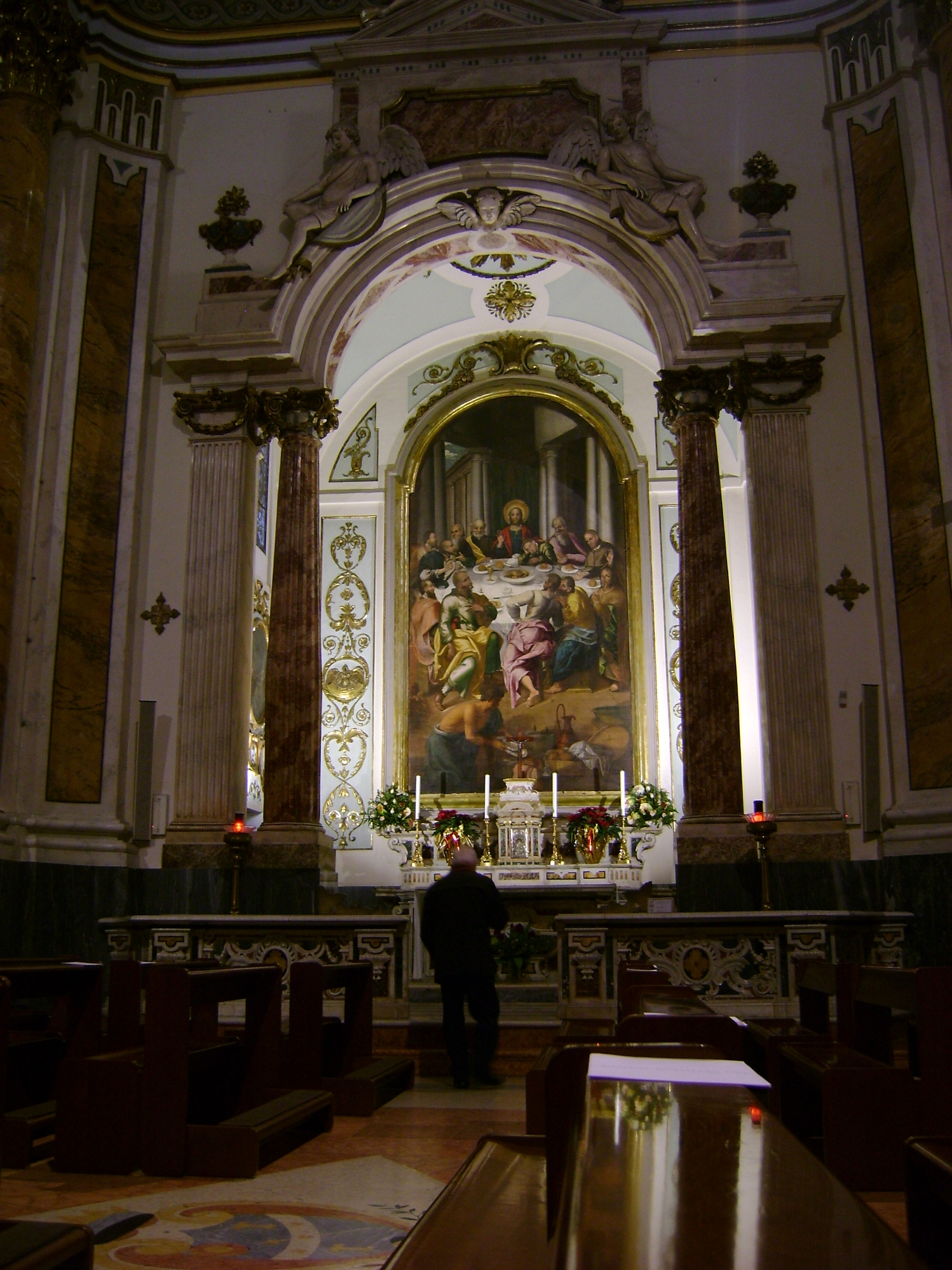 The chapel of the Blessed Sacrament in the Madonna del Ponte basilica, Lanciano, province of Chieti, Abruzzo